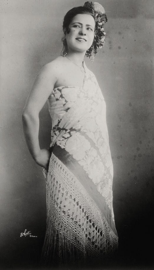 italian-born american actress Mimi Aguglia - original image cropped (see source)